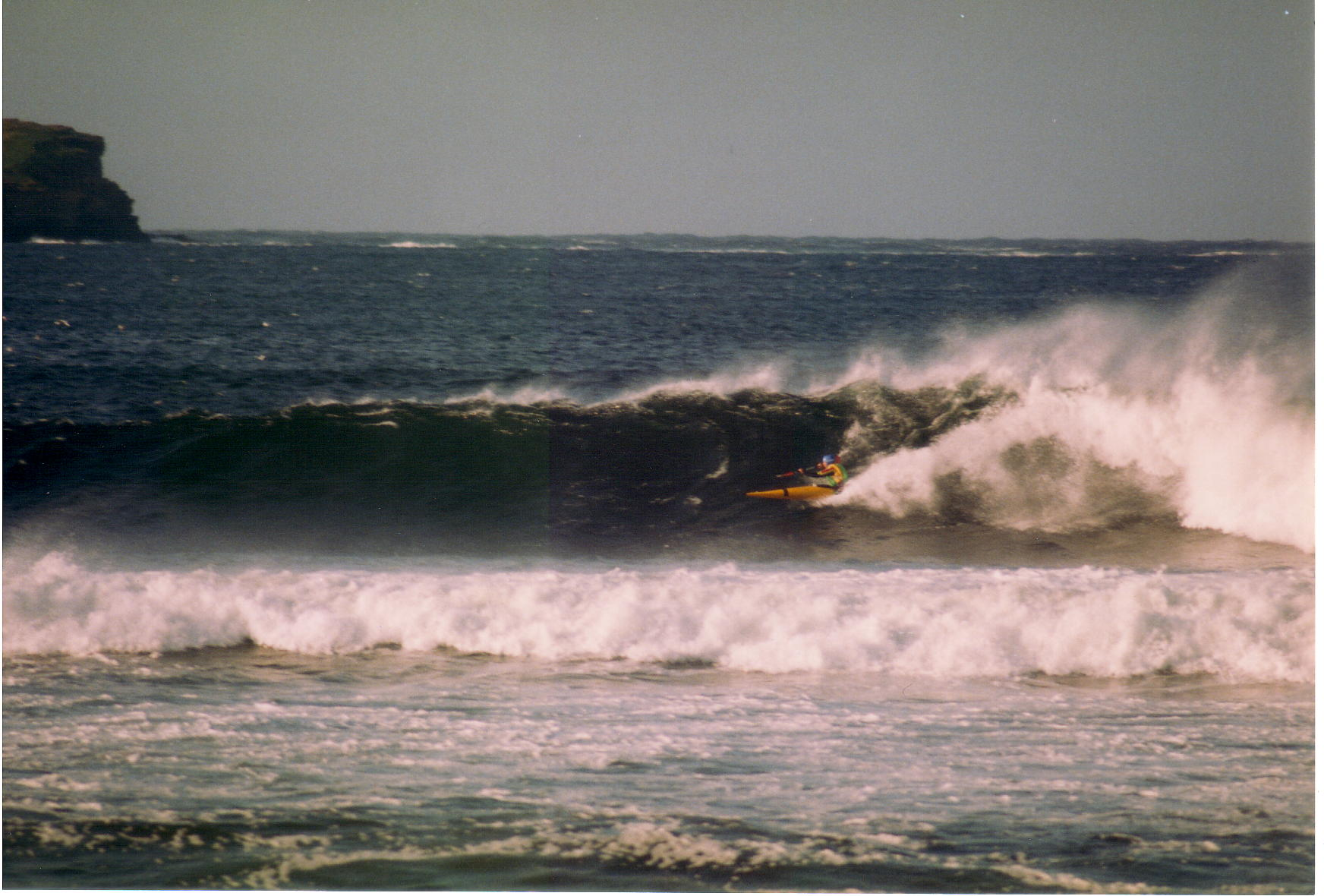 Kayak Surf on Thurso East